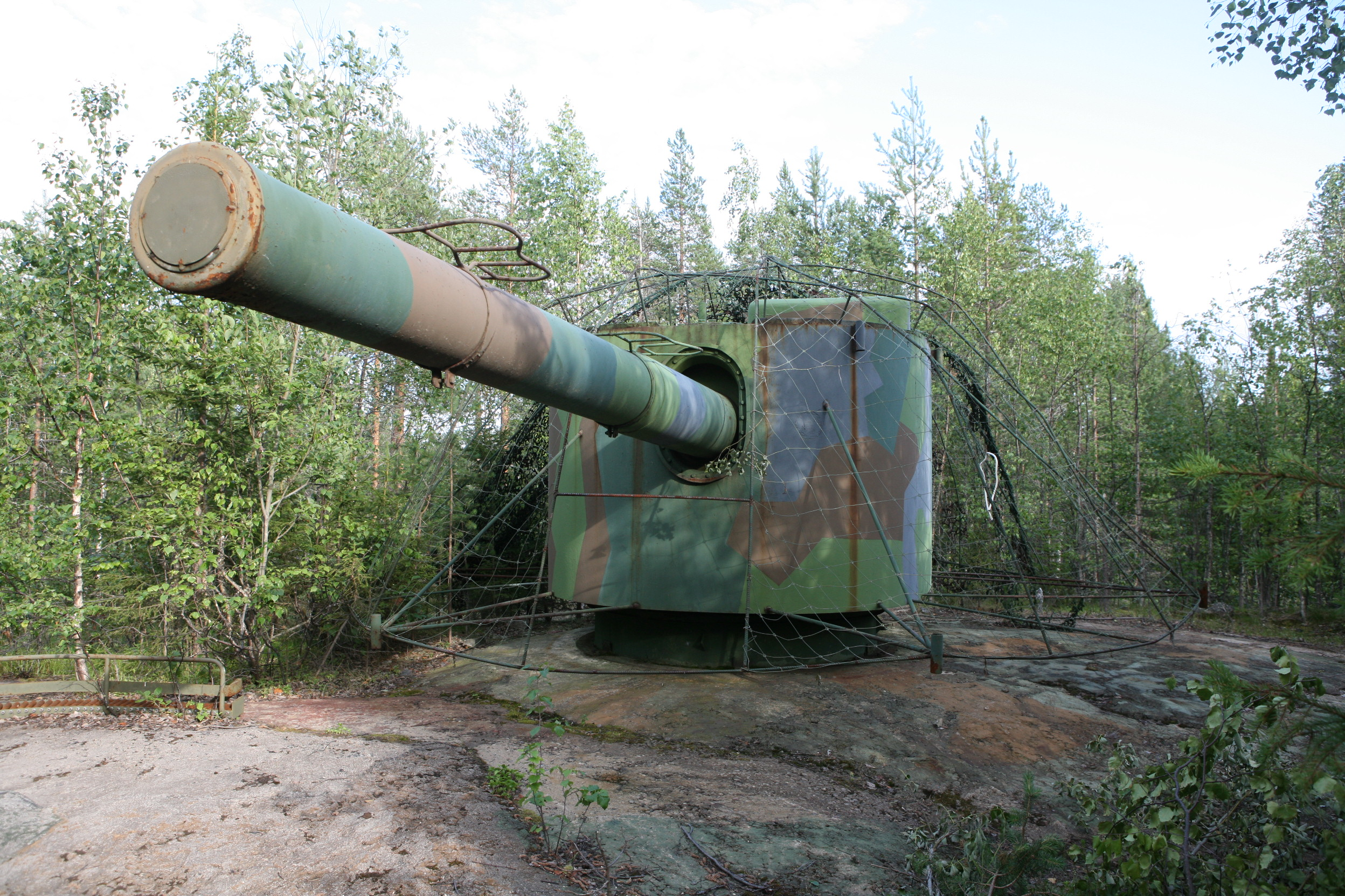 A 15,2cm/50cal. Bofors M/12 turret, formerly of the Swedish armoured ship HMS Gustav V. When the ship was scrapped the turrets were used as army batteries in northern Sweden. This turret is still on Häggmansberget near Kamlunge.